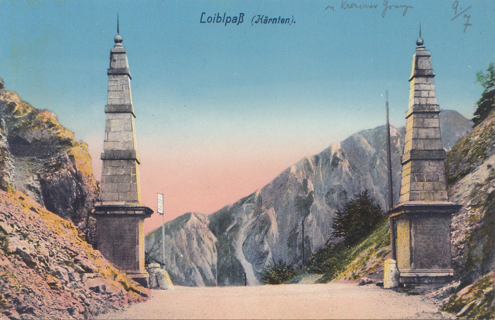 Postcard of Ljubelj.